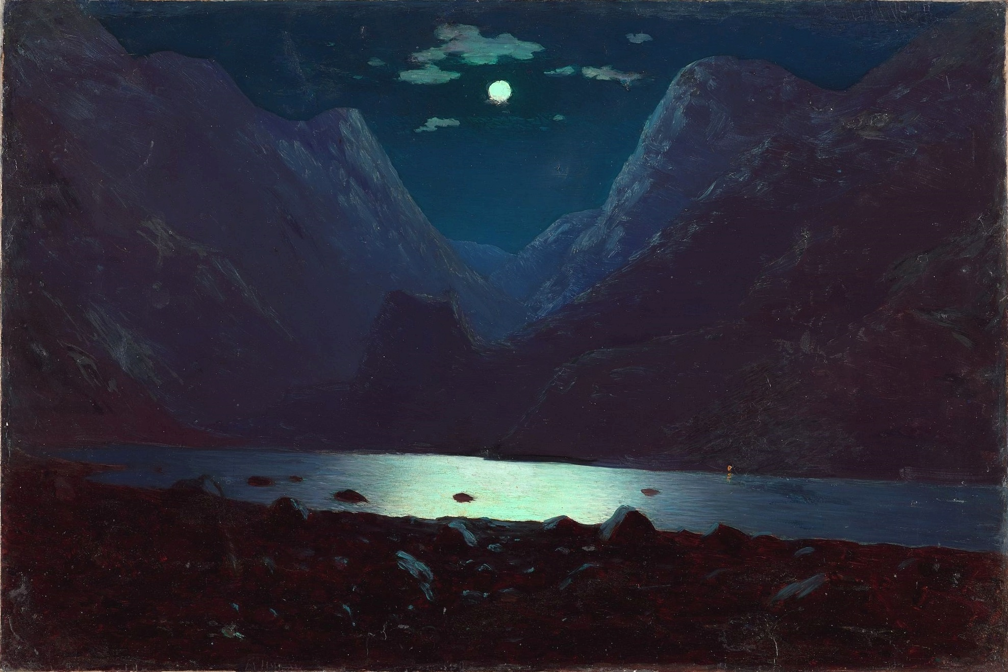 Daryal pass. Moonlight Night (painting by Arkhip Kuindzhi, 1890-1895)